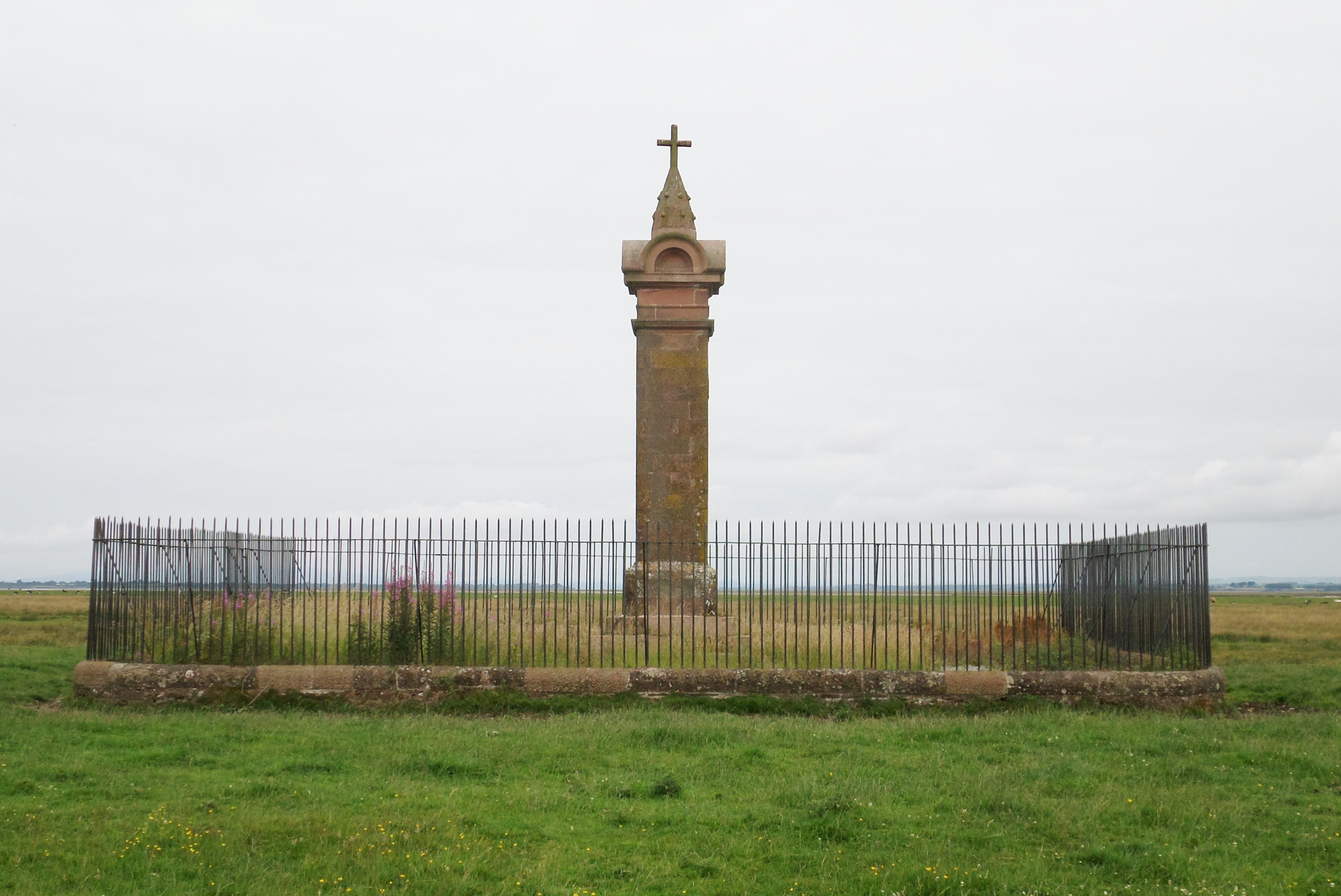 The 19th century memorial to King Edward I of England at Burgh Marshes, Burgh-by-Sands, Cumbria, England. It is said to mark the exact spot where he died.